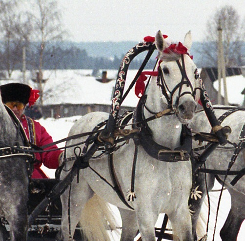 Middle horse in a troika of Moscow stud performing at Vologda racecourse, wearing a shaft bow.